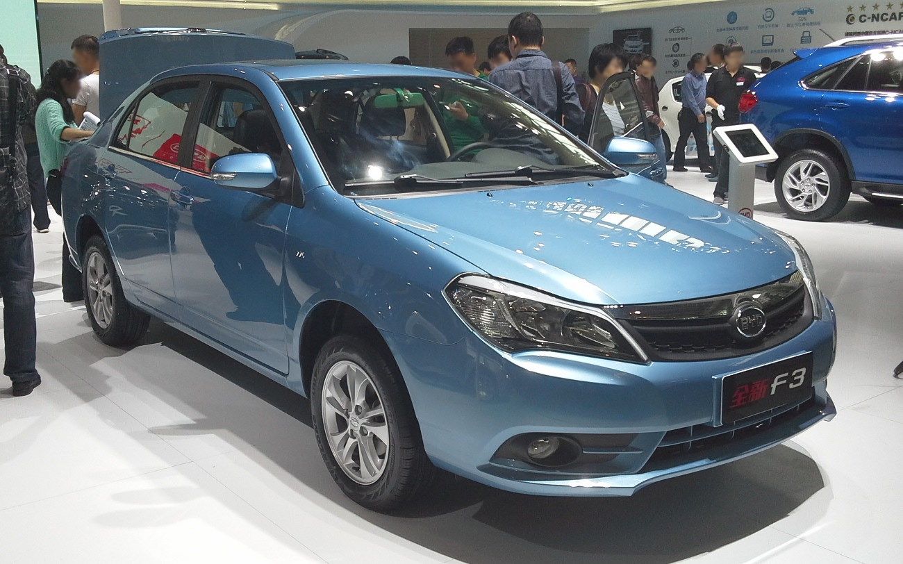 BYD F3 facelift photographed at the Auto China 2014, Beijing, China.